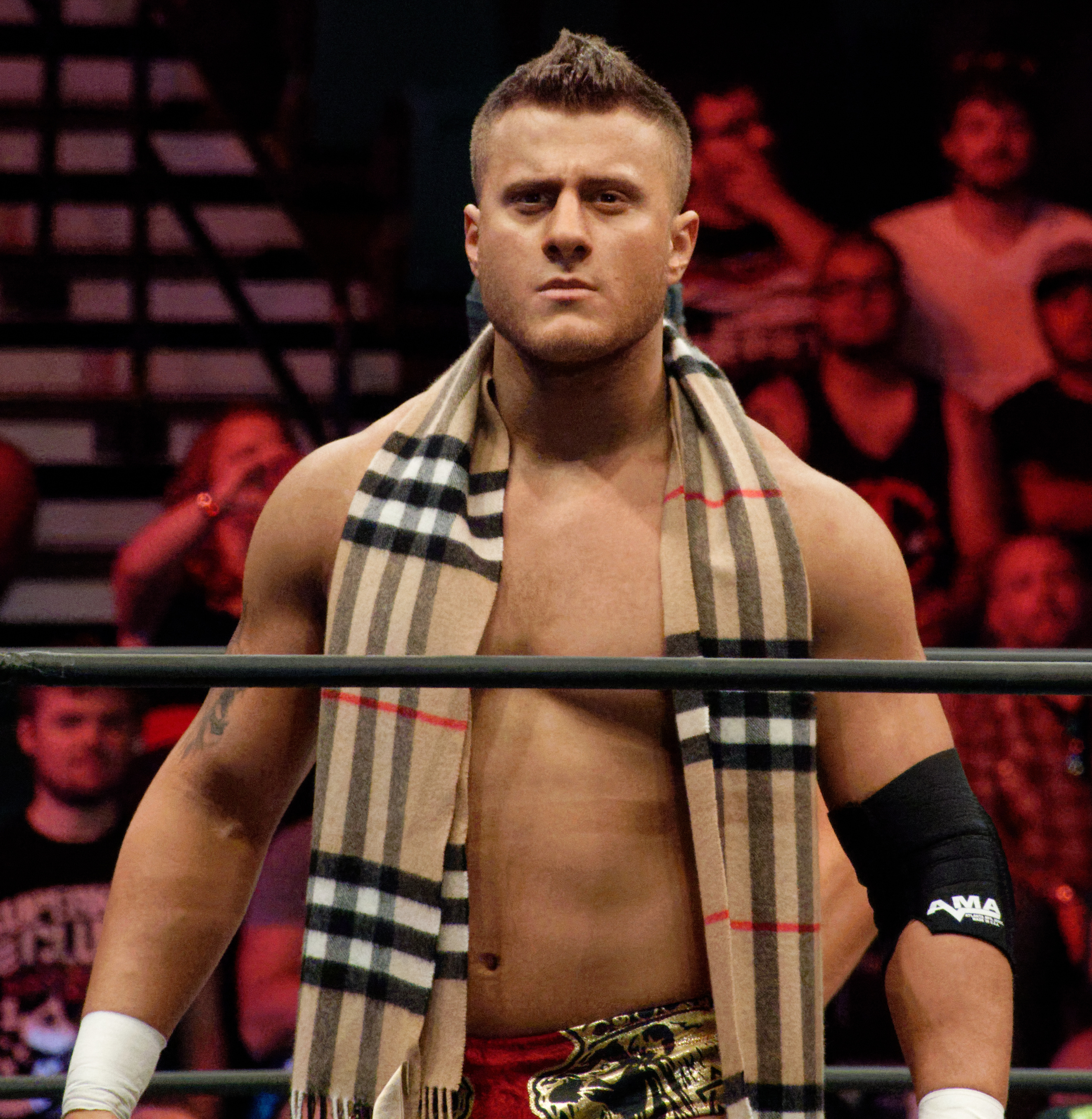 Pro Wrestler MJF at AEW Double or Nothing